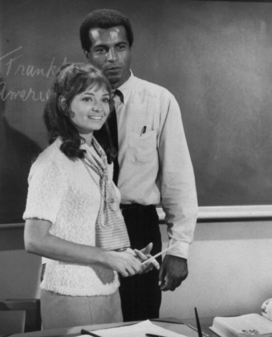 Publicity photo of Karen Valentine and Lloyd Haymes from the television program Room 222.